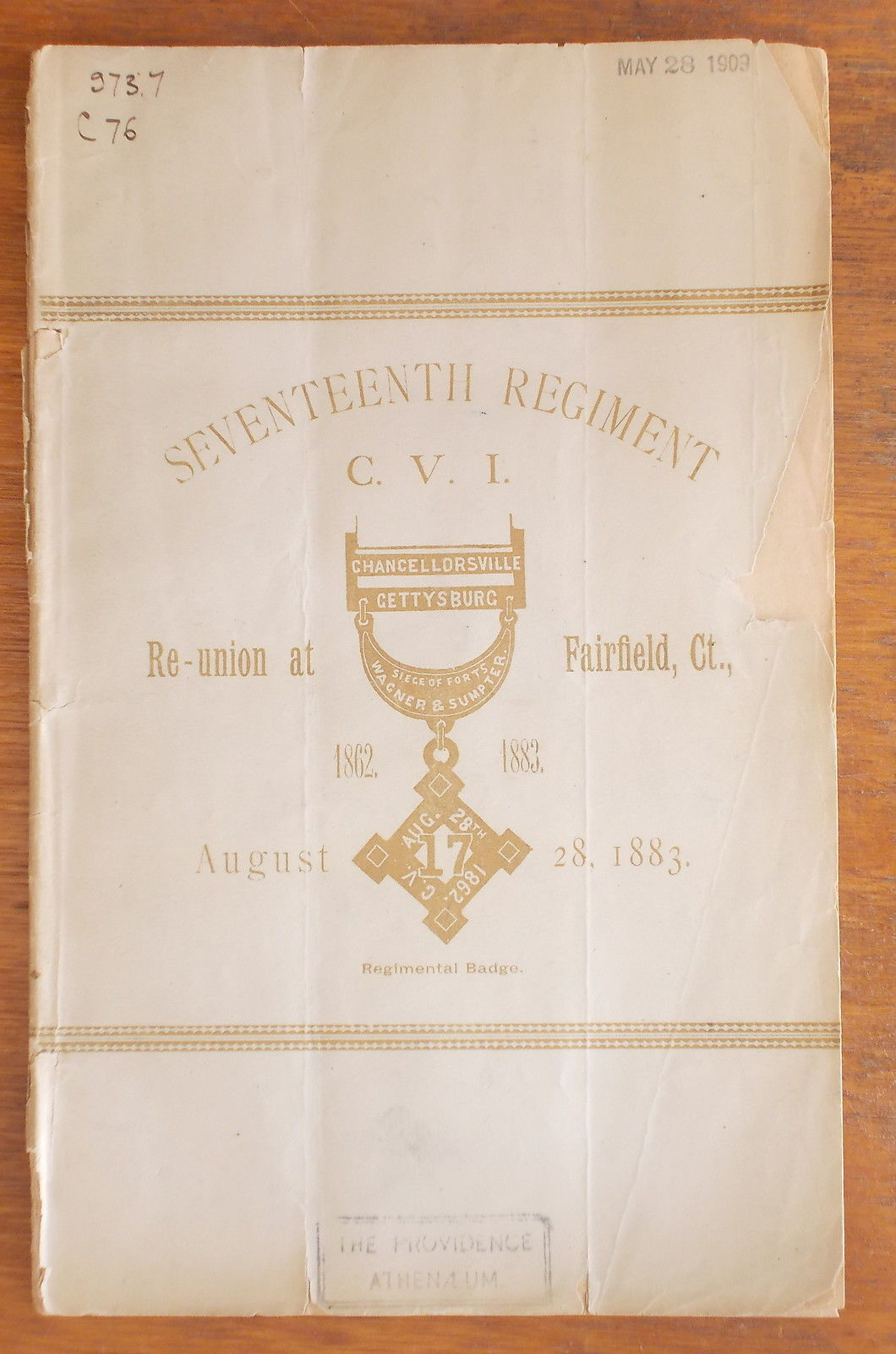 Photo of a Pamphlet of the Seventeenth Annual Reunion of the 17th Connecticut Vol Regiment on Aug 28, 1883. Pamphlet is in the Rob Andre' Stevens Collection re: the US Civil War